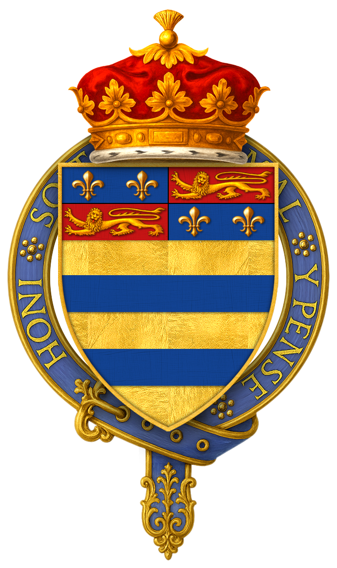 Shield of arms of John Manners, 5th Duke of Rutland, KG